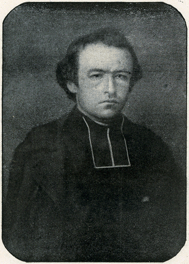 Guido Gezelle, Belgian writer and poet, photographed in 1860